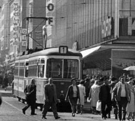 cropped from: File:Bundesarchiv B 145 Bild-F030015-0013, Kassel, Bundestagswahlkampfreise Brandts in Hessen.jpg